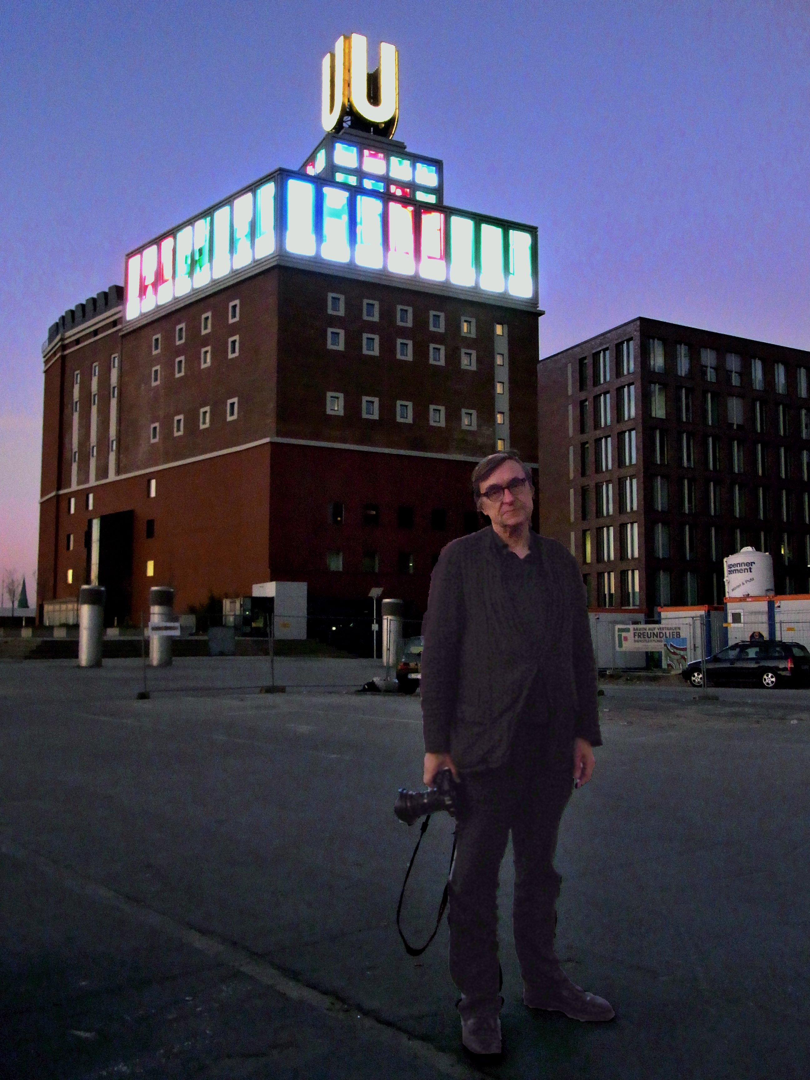 Adolf Winkelmann, German Director and professor for moviedesign in front of his video installation at the Dortmund-U